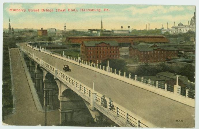 Postcard of the Mulberry Street Bridge in Harrisburg, Pennsylvania dated 1913.